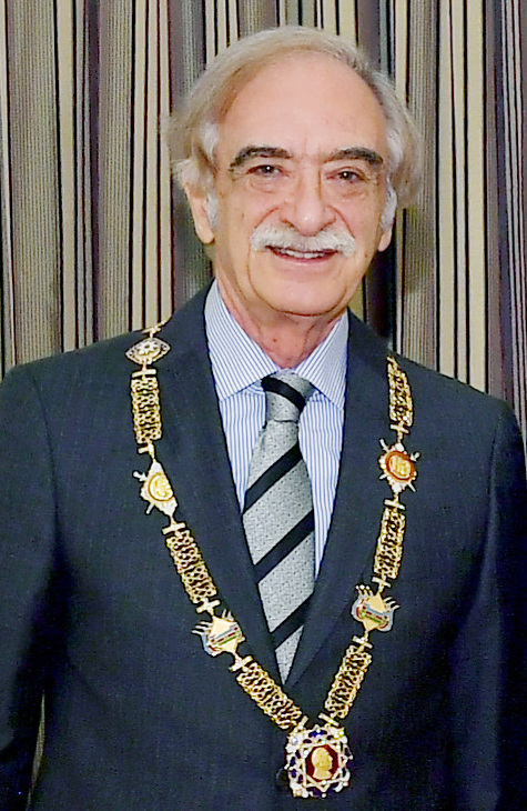 Ilham Aliyev presented “Heydar Aliyev” Order to Polad Bulbuloghlu